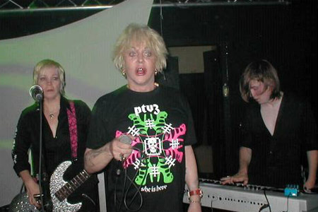 PTV3 (Psychic TV) live in Cologne, Germany, September 2004. Left to right: Alice Genese (bass), Genesis P-Orridge (voc), Markus Person (keyb). Not on pic: David Max (guitar), Jaye Breyer-P-Orridge (samples), Eddie ODowd (drums).